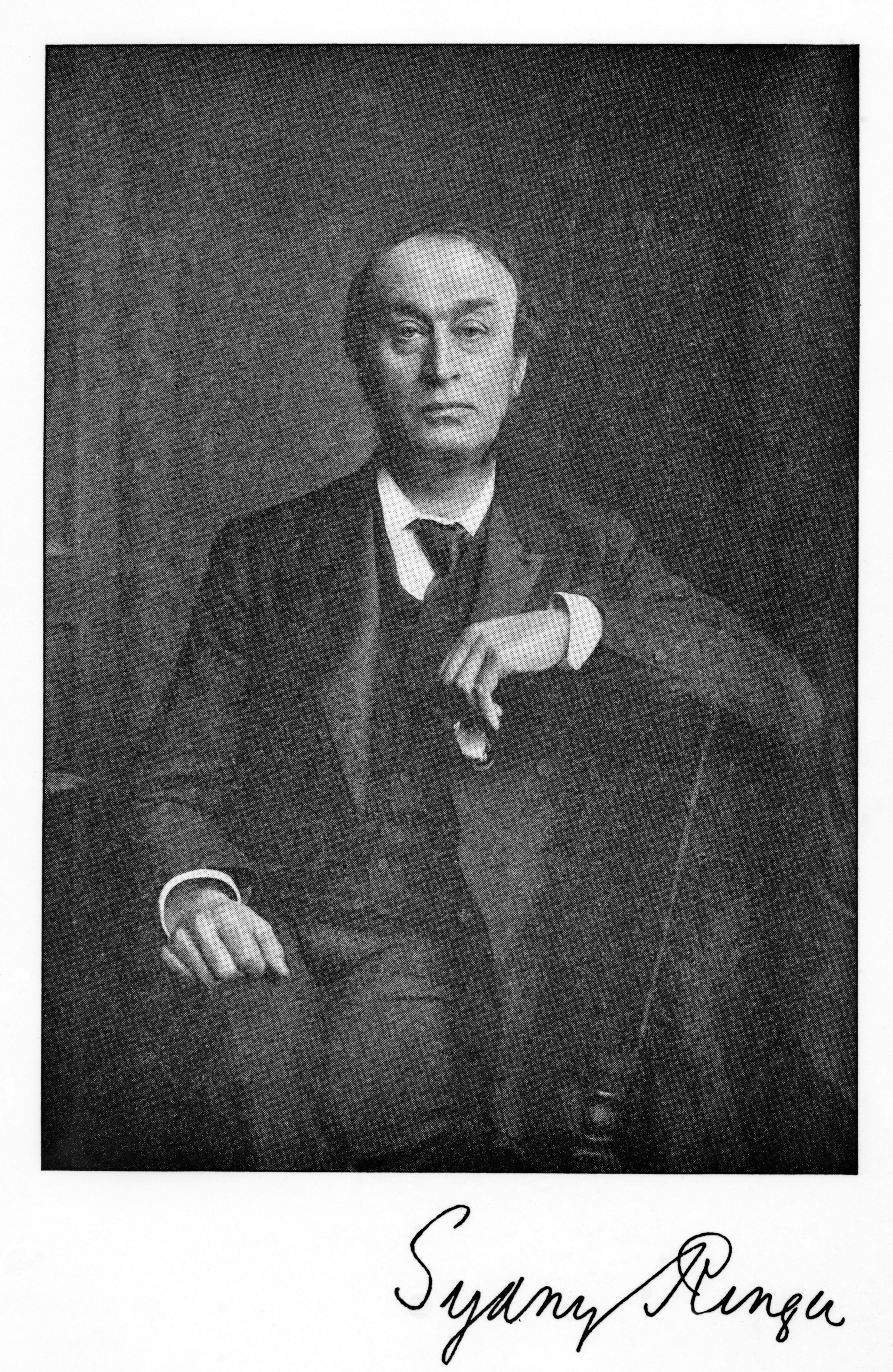 Portrait of Sydney Ringer. signed. Wellcome Images Keywords: Sydney Ringer